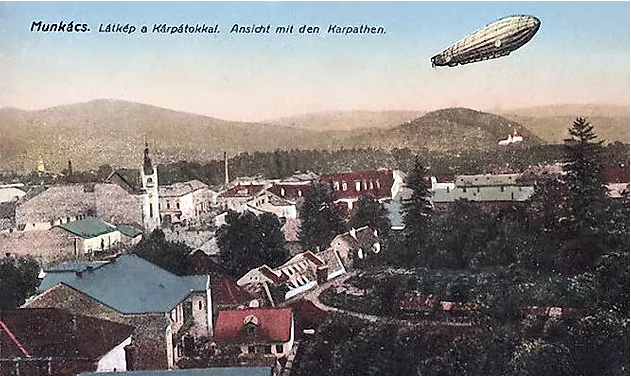 Munkács 1905 körül. Forrás (képeslap): "Majd adok én nektek kutyák" – Ellenforradalom és megtorlás Munkácson (1919. április 21–24)